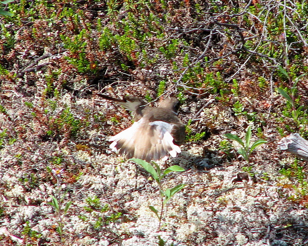 Semipalmated Plover (Charadrius semipalmatus) in "broken wing" display, Coppermine River, Nunavut, Canada